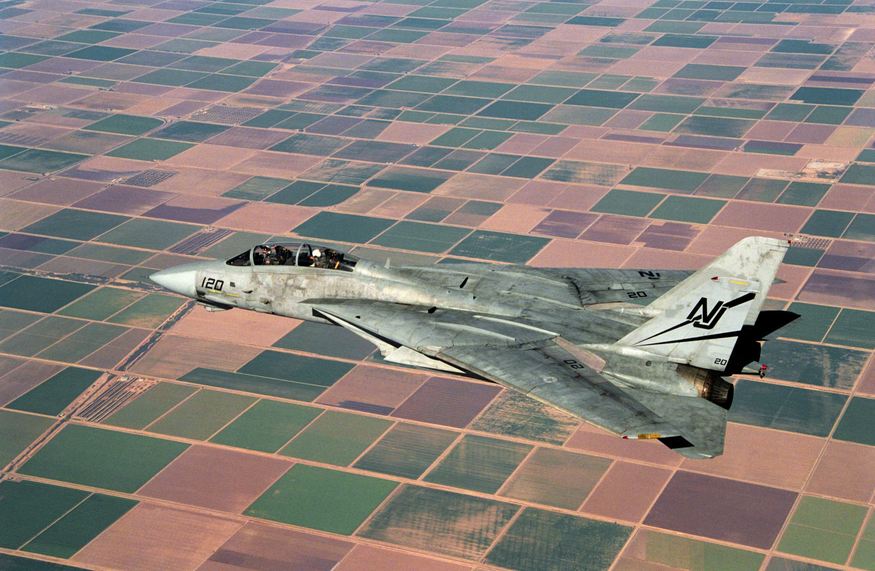 Aerial of a US Navy (USN) F-14A Tomcat, Fighter Squadron-124 (VF-124), Gunfighters, Naval Air Station (NAS) Miramar, California (CA) in flight.Location: SAN DIEGO, CALIFORNIA (CA) UNITED STATES OF AMERICA (USA)